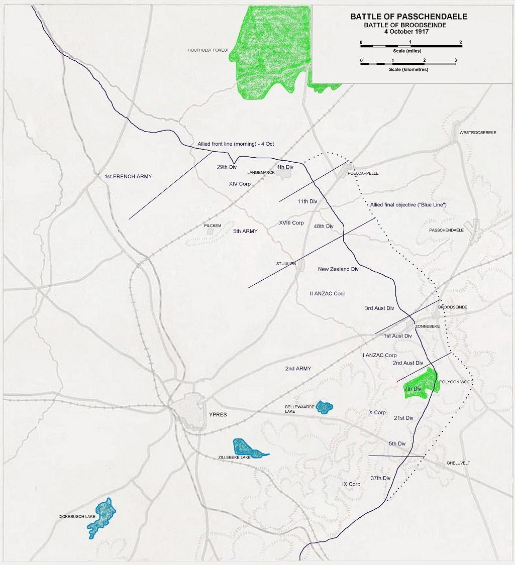 Map of Battle of Broodseinde, October 1917, showing setup of forces and pre-battle objectives. References - Terrain: Map of Ypres/Cambrai from Frontline: Map of Ypres from Australian War Memorial Website: Forces and Objectives: Pages 835 and 837, Volume IV - The Australian Imperial Force in France: 1917, C.E.W Bean, 1933